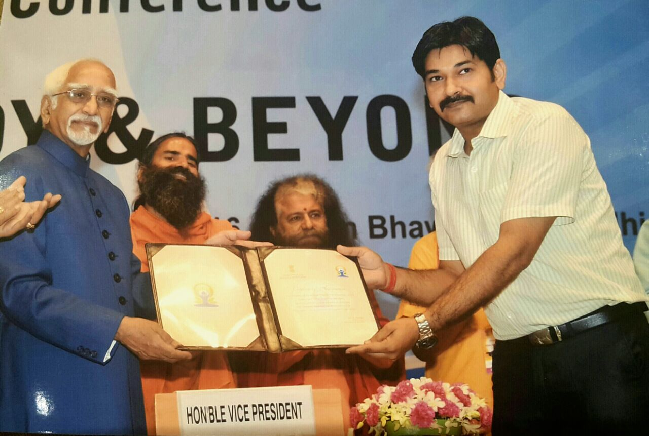 Dheeraj saraswat honored by HH VIce President of India for His Yog geet Selected BY Ministry of Ayush as International Yog Anthem